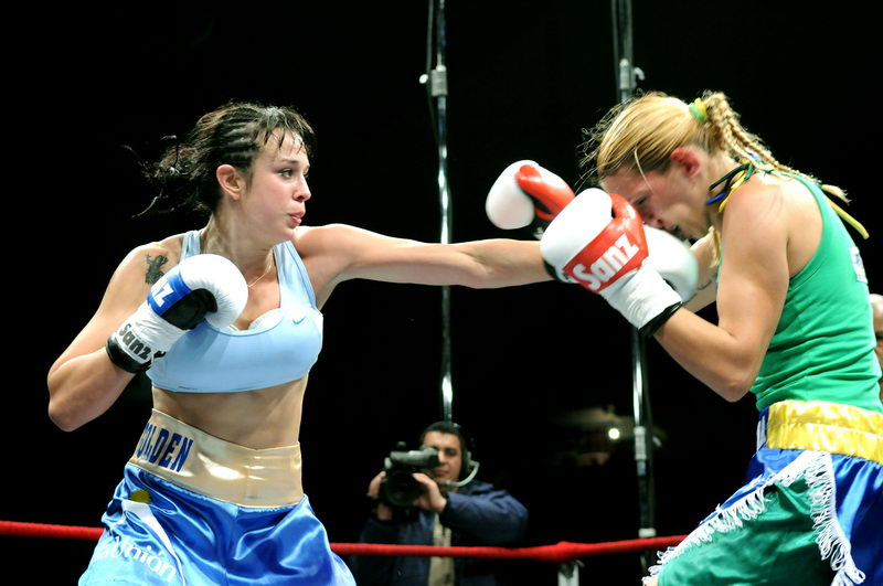 Women's boxing in Montevideo, Uruguay. Chris Namús (URU) vs. Leticia Rojo (BRA)